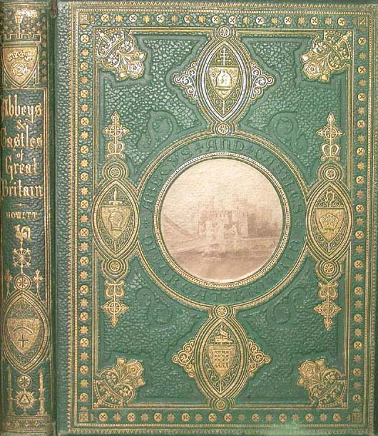 Mary Howitt and her husband William - a book cover of @Abbeys and Castles of Great Britain""